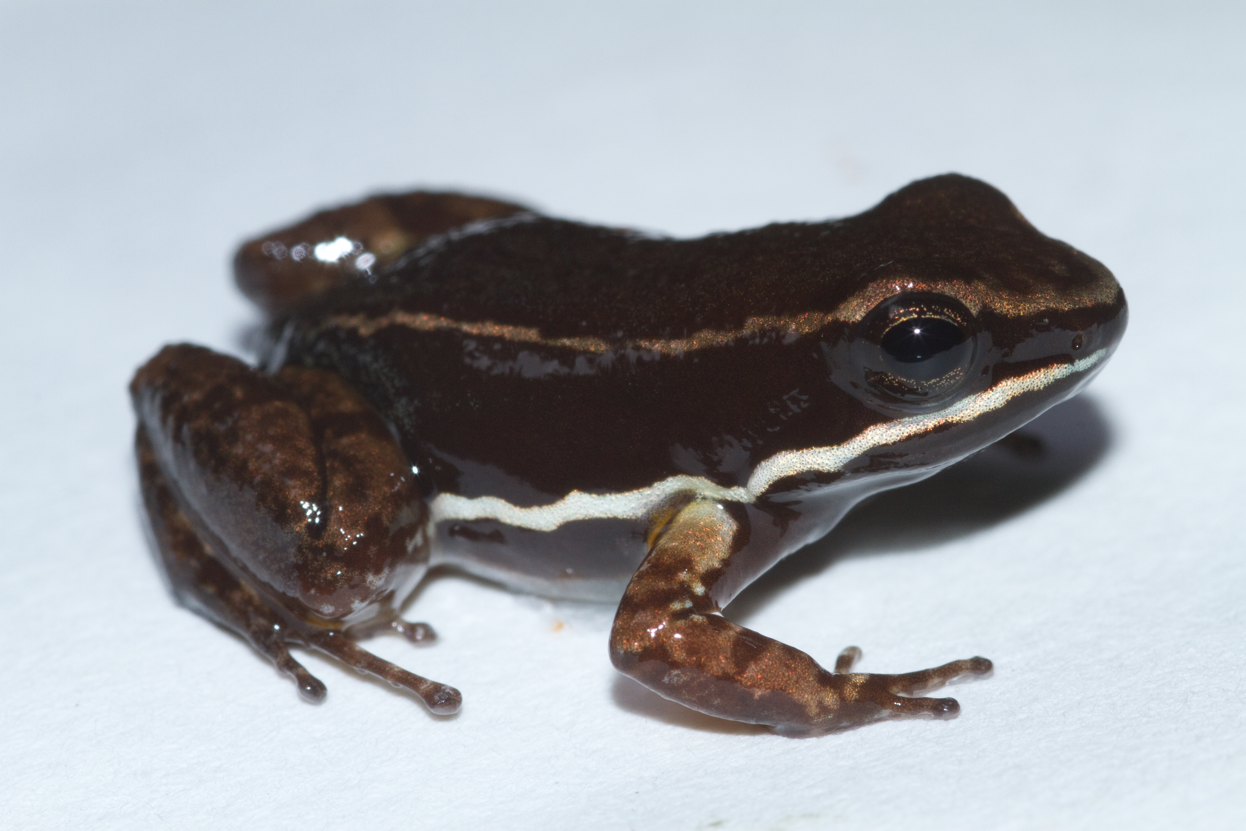 Allobates talamancae syn. Colostethus talamancae, Sierra Llorona, Panama